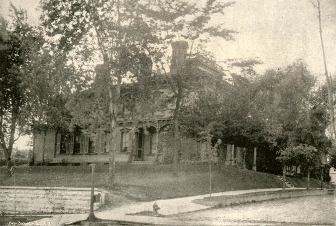 Photo of Thomas M. and Bridget Blackstock House, 507 Washington Court, Sheboygan, Wisconsin, 1902.